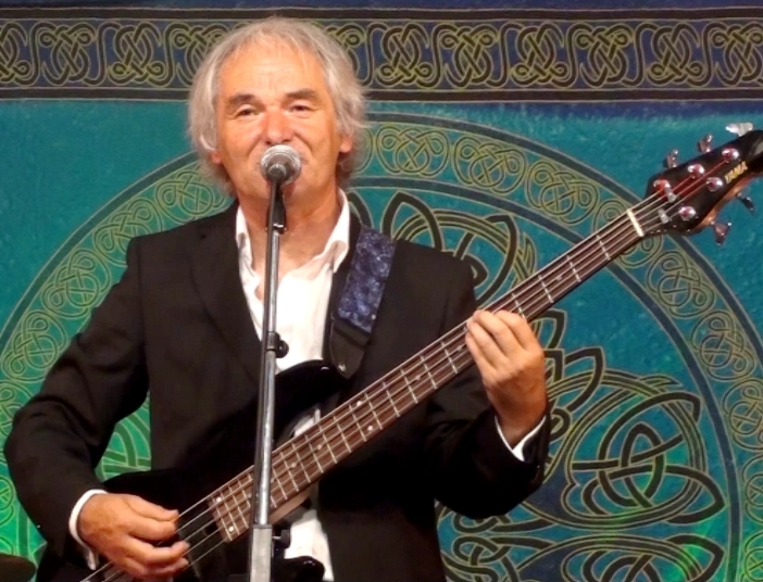 Gérard Jaffrès, live in Drennec (29/08/09)